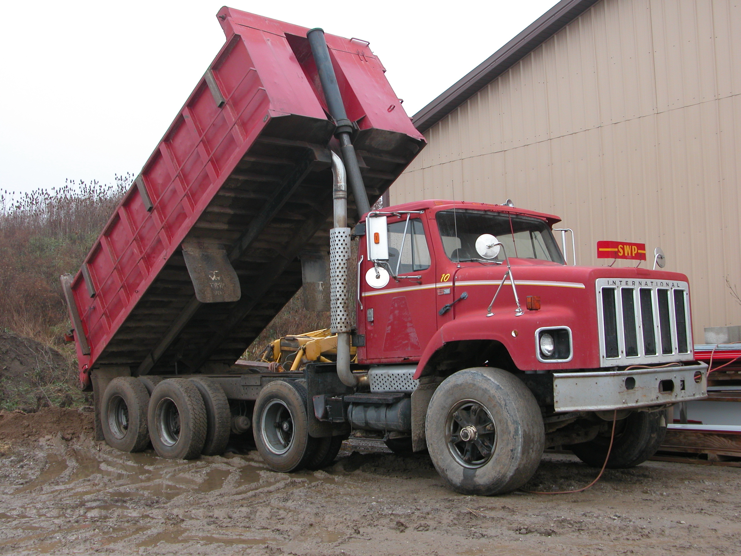 An International S2600 truck in Pioneer, Ohio.